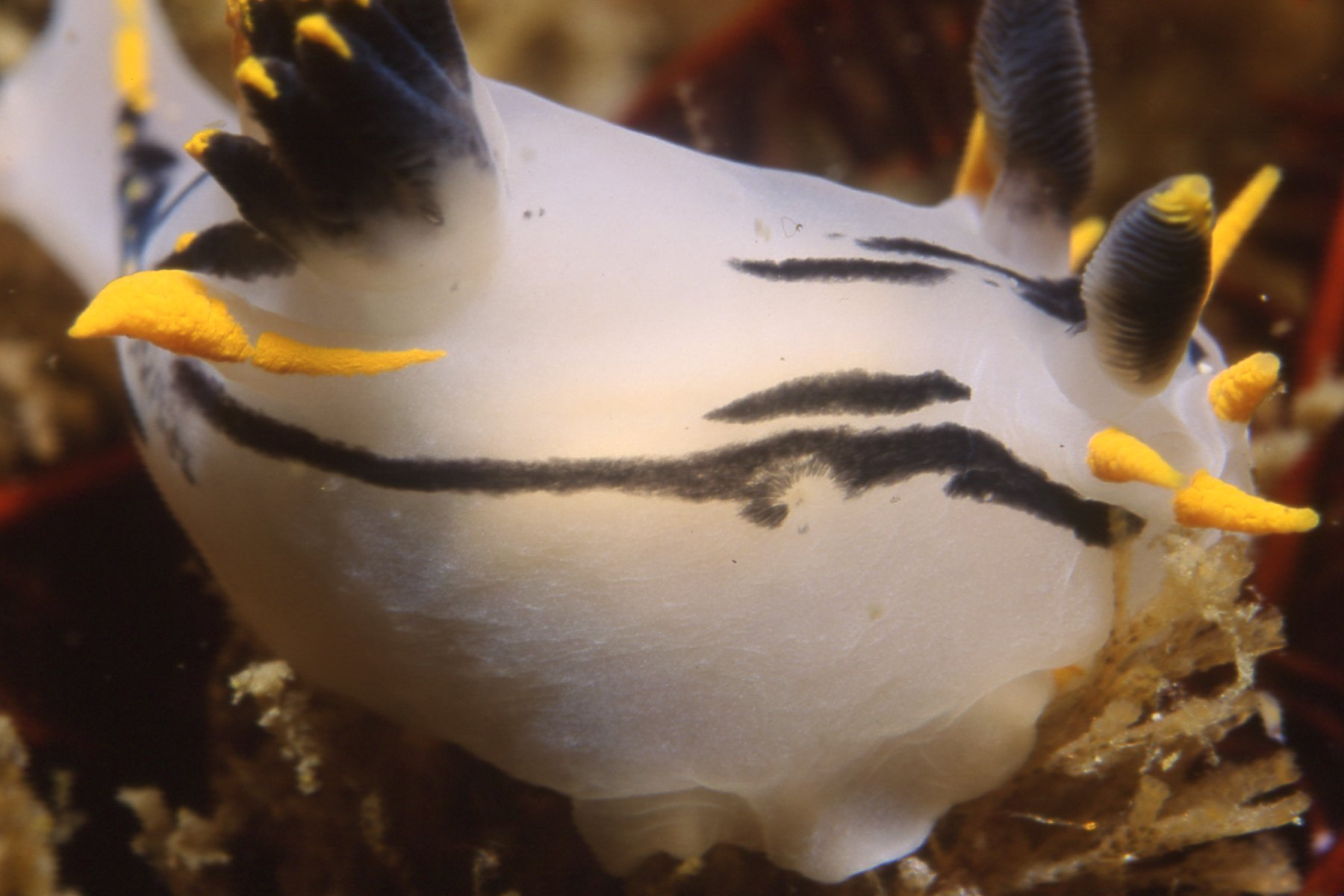 A closeup photo of the crowned nudibranch, Polycera capensis showing the shape opf the rhinophores and the projections on either side of the gills. Taken in False Bay in 25m of water.